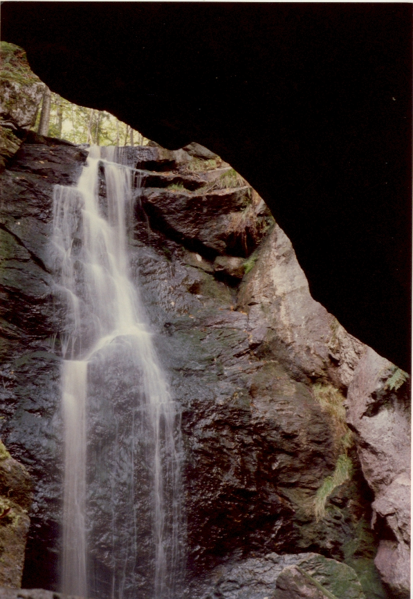 Royalston Falls, Royalston, Massachusetts, for Metacomet-Monadnock Trail.